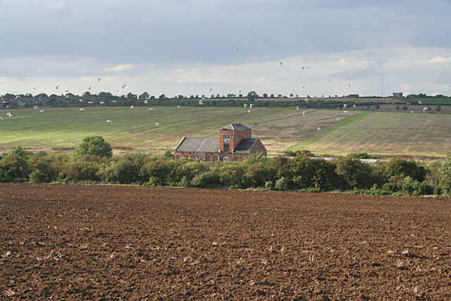 Old station, South Luffenham. The old station yard houses several small industrial units now. The railway is the mainline from Leicester to Stansted Airport, passing through Melton Mowbray and Oakham before reaching this point. (I've picked Disused station as the category as it isn't used by the railway anymore.)